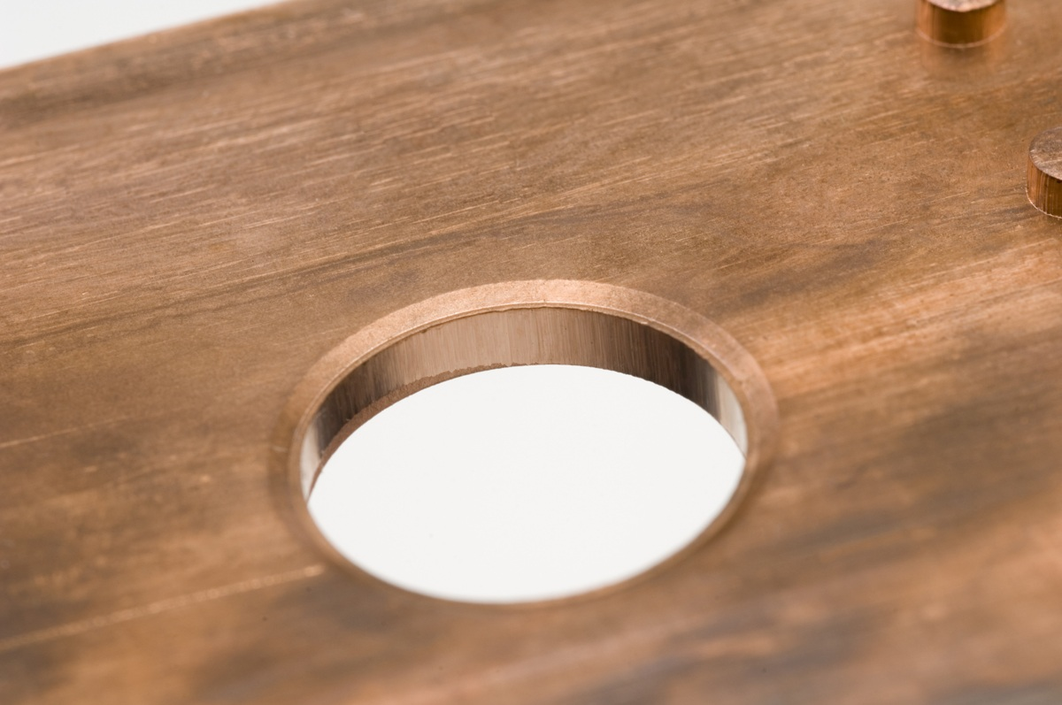 best results for cutting surface with above 65% cutting and rest breaking, low clearance necessary